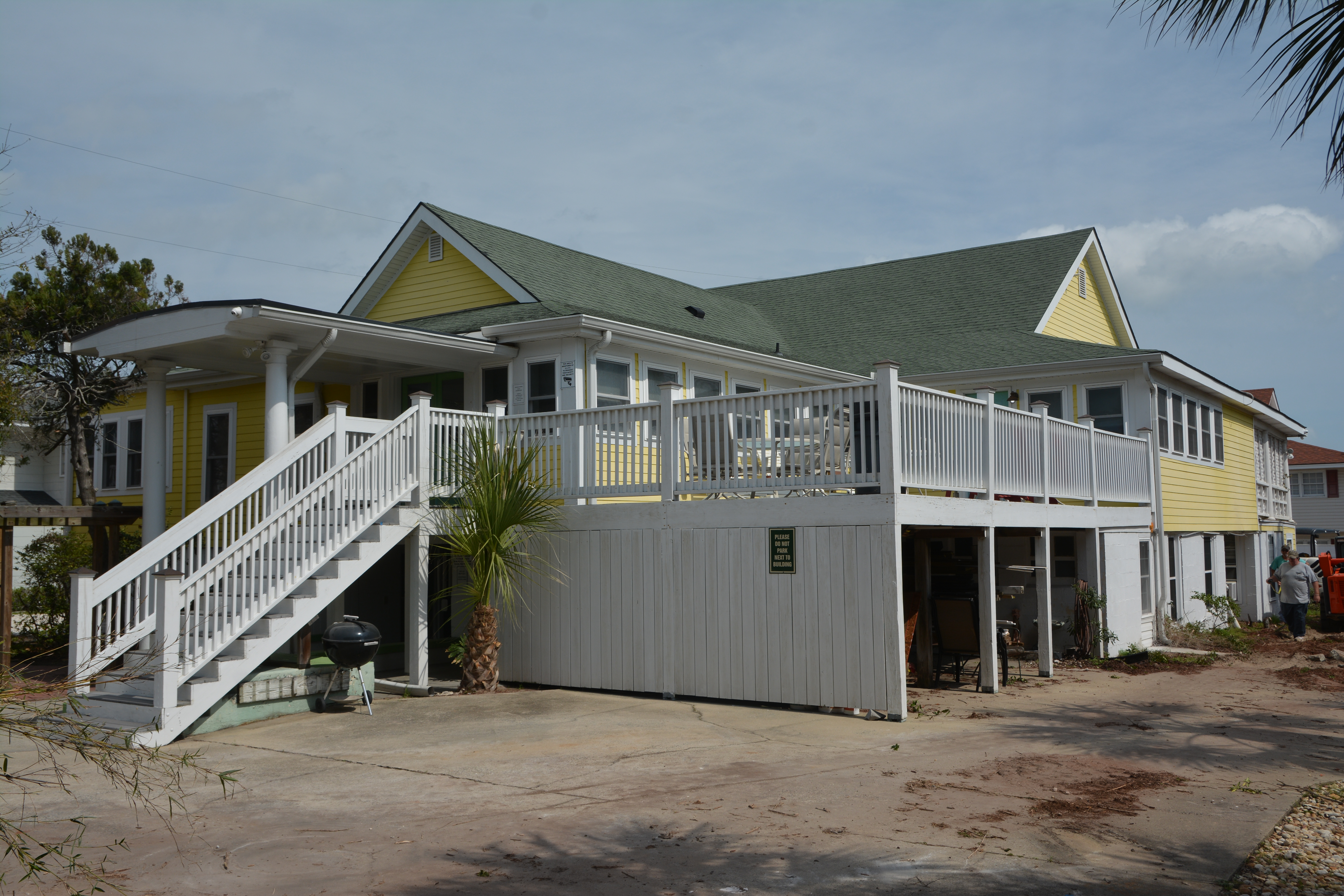 Strand Cottages Historic Districy, Tybee Island, Georgia, US Cummings Cottage/Georgiana Inn, 1312 Butler Ave.